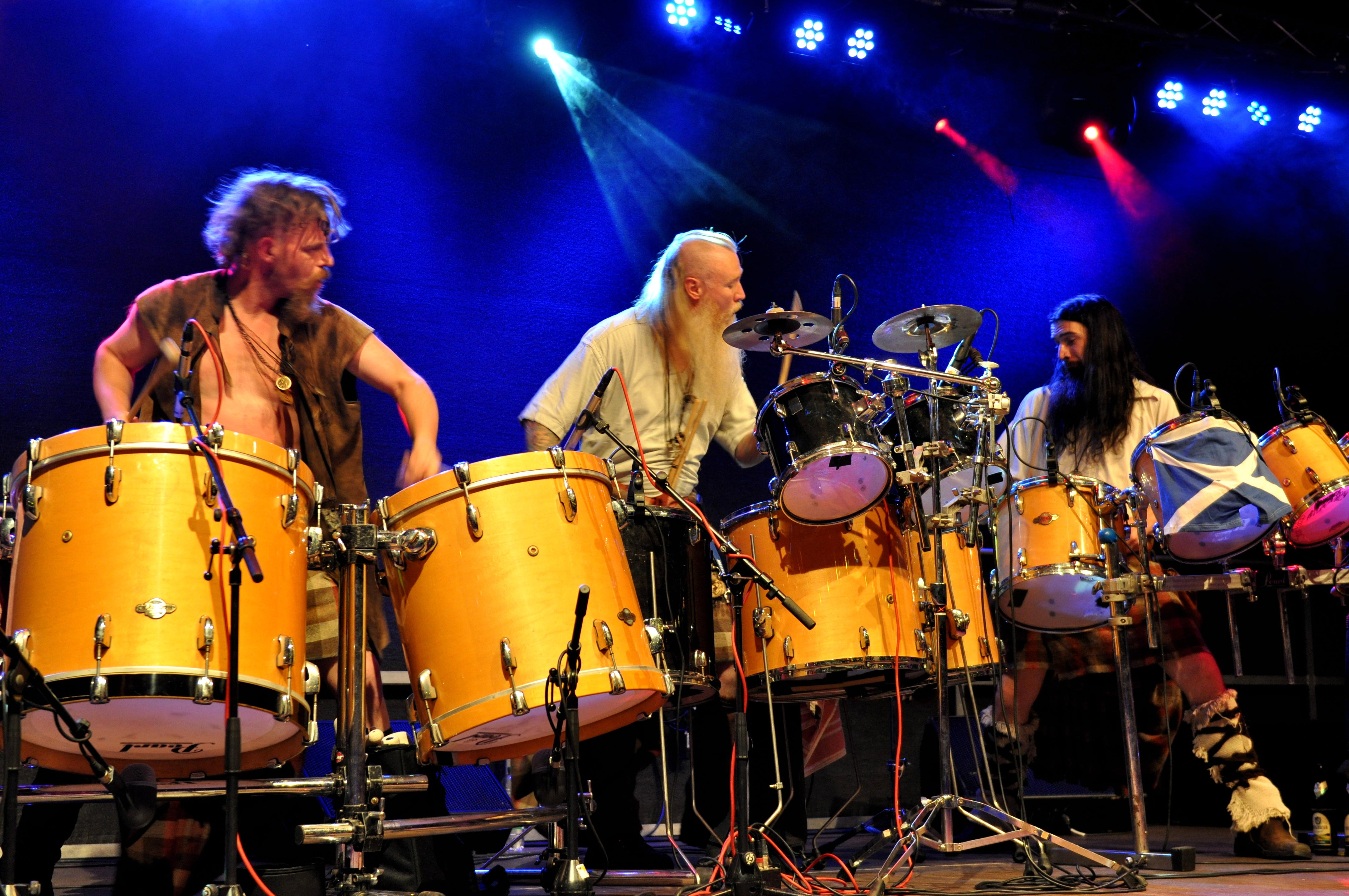 Saoir Patroil (SCT), Folk am Neckar 2015, Mosbach-Neckarelz, Germany Festivalsommer This photo was created with the support of donations to Wikimedia Deutschland in the context of the CPB project "Festival Summer".